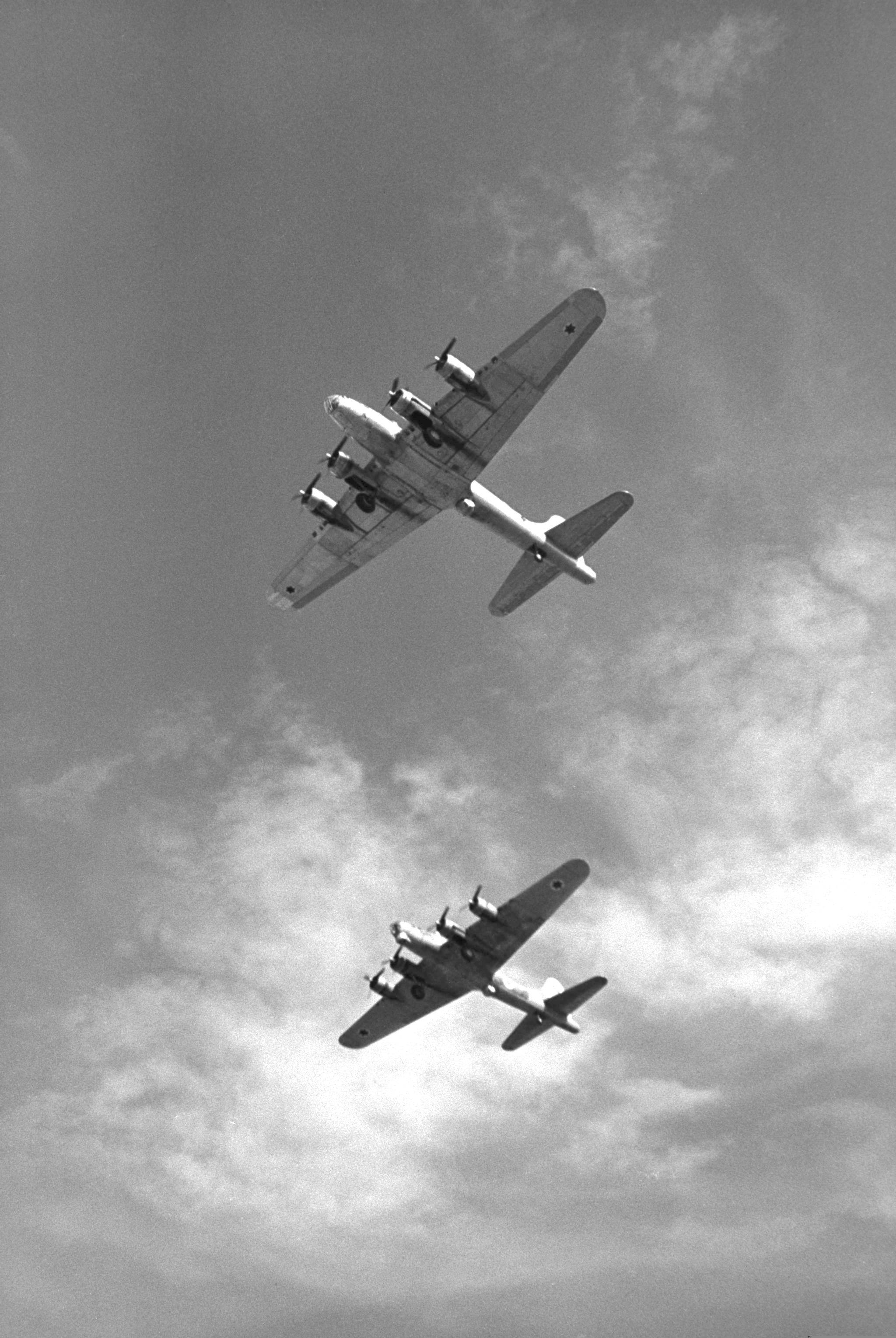 Original Caption: ARMY AIR FORCE. FOUR B-176 ENGINE BOMBERS OF THE ISRAEL AIR FORCE.